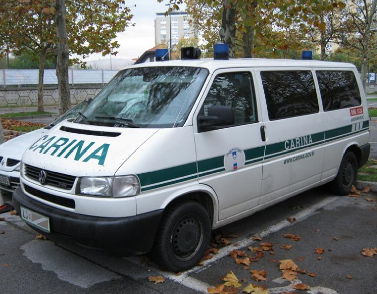 The Van of Slovenian Customs Service